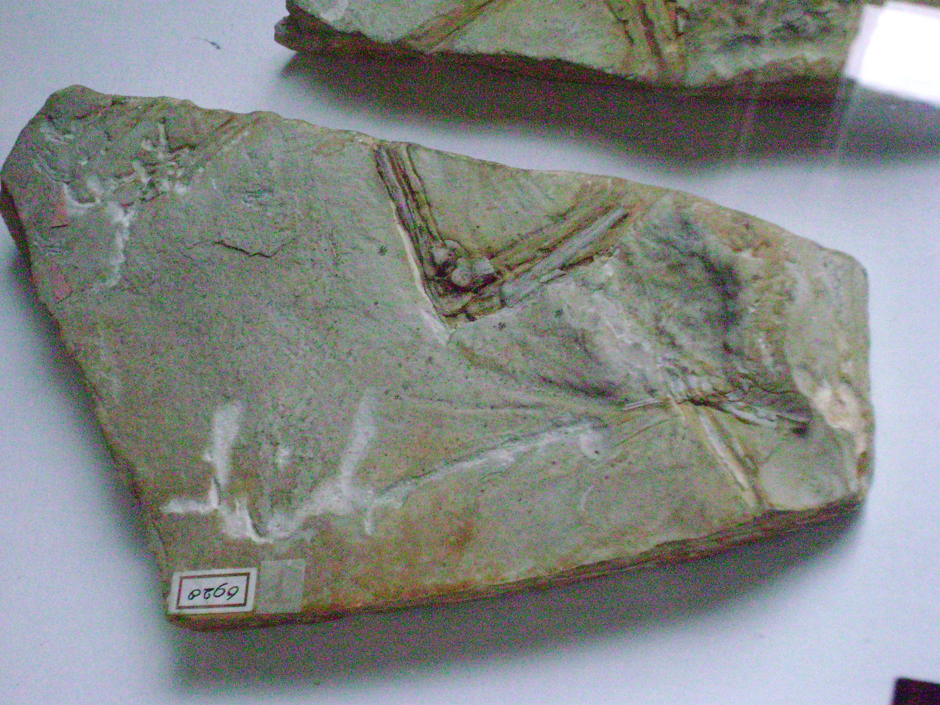 One of the slabs of the Haarlem specimen of Archaeopteryx in the Teylers Museum